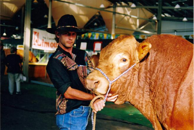 A Limousin bull at the Sydney Royal Easter Show